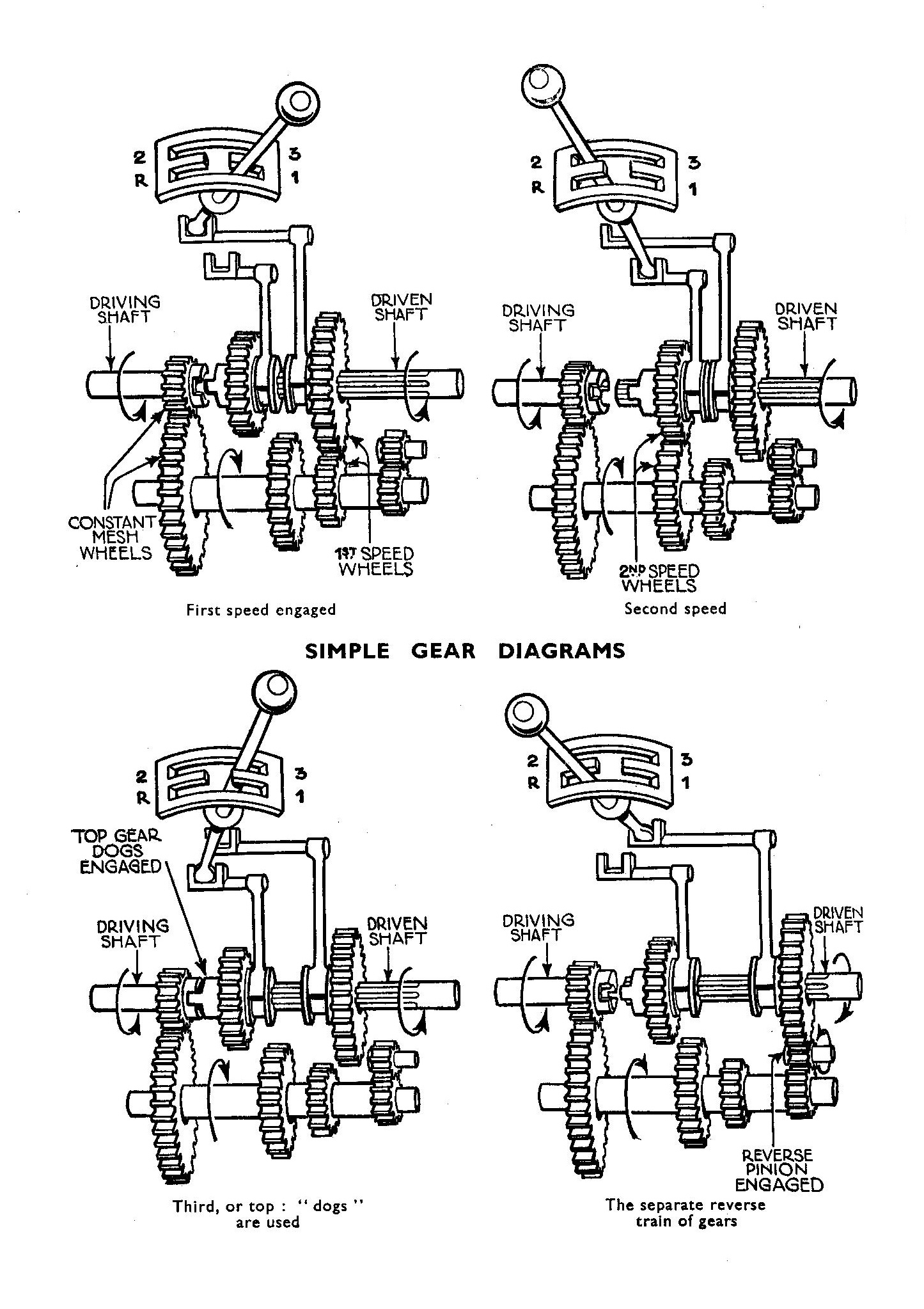 Three-speed crash gearbox, schematic (Autocar Handbook, 13th ed, 1935).jpg